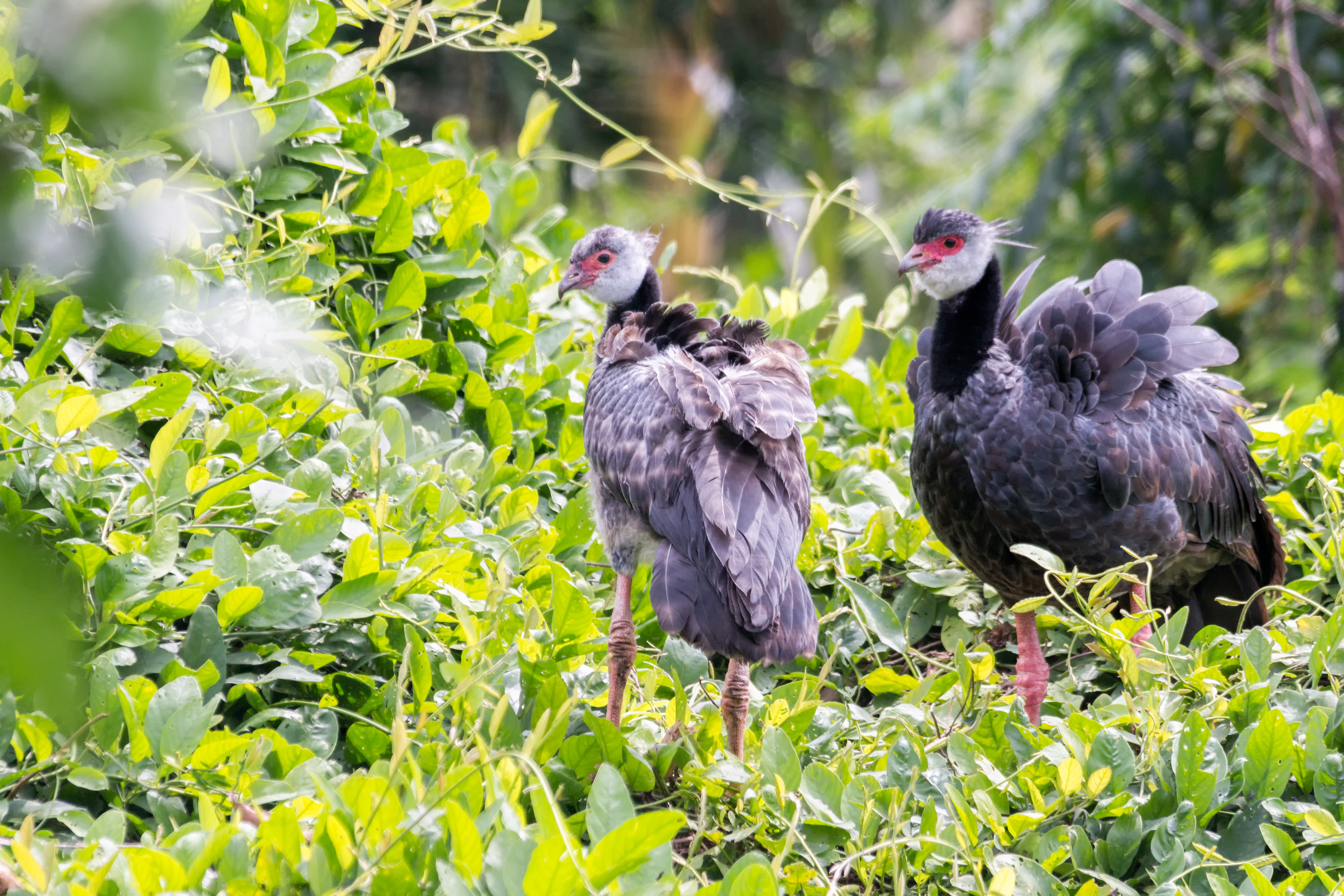 Northern Screamer | Chicagüire (Chauna chavaria)